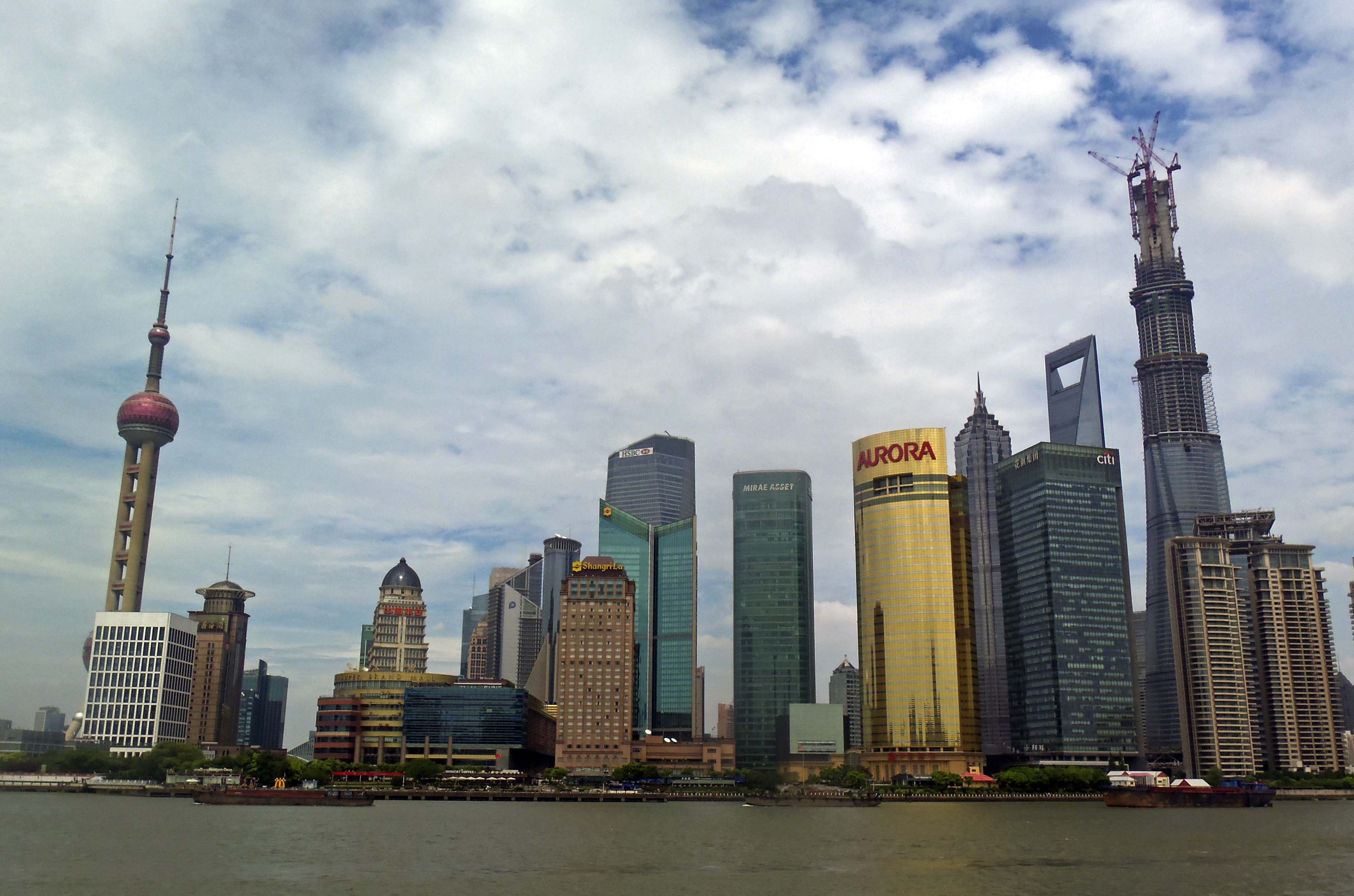 Lujiazui skyline of Shanghai's Pudong district from the Bund across the Huangpu in August 2013, as Shanghai Tower neared its topping out the next day.